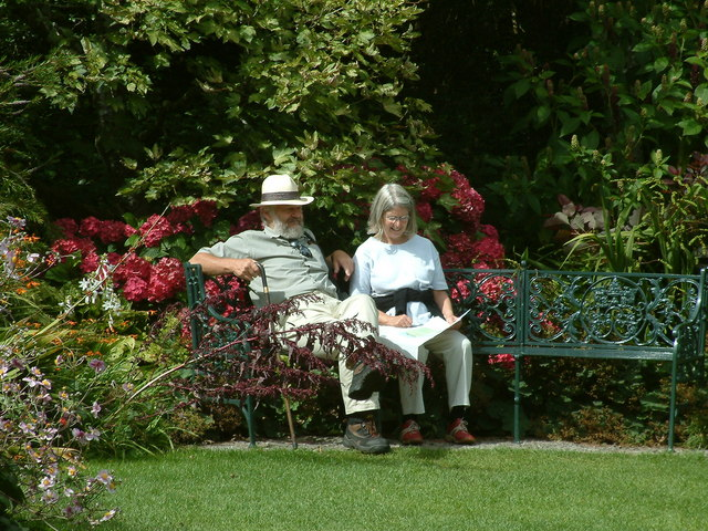 Trelissick Garden, A Welcome Rest. Like all National Trust Gardens, Trelissick needs a lot of stamina to get round - and this couple are taking a well earned rest.